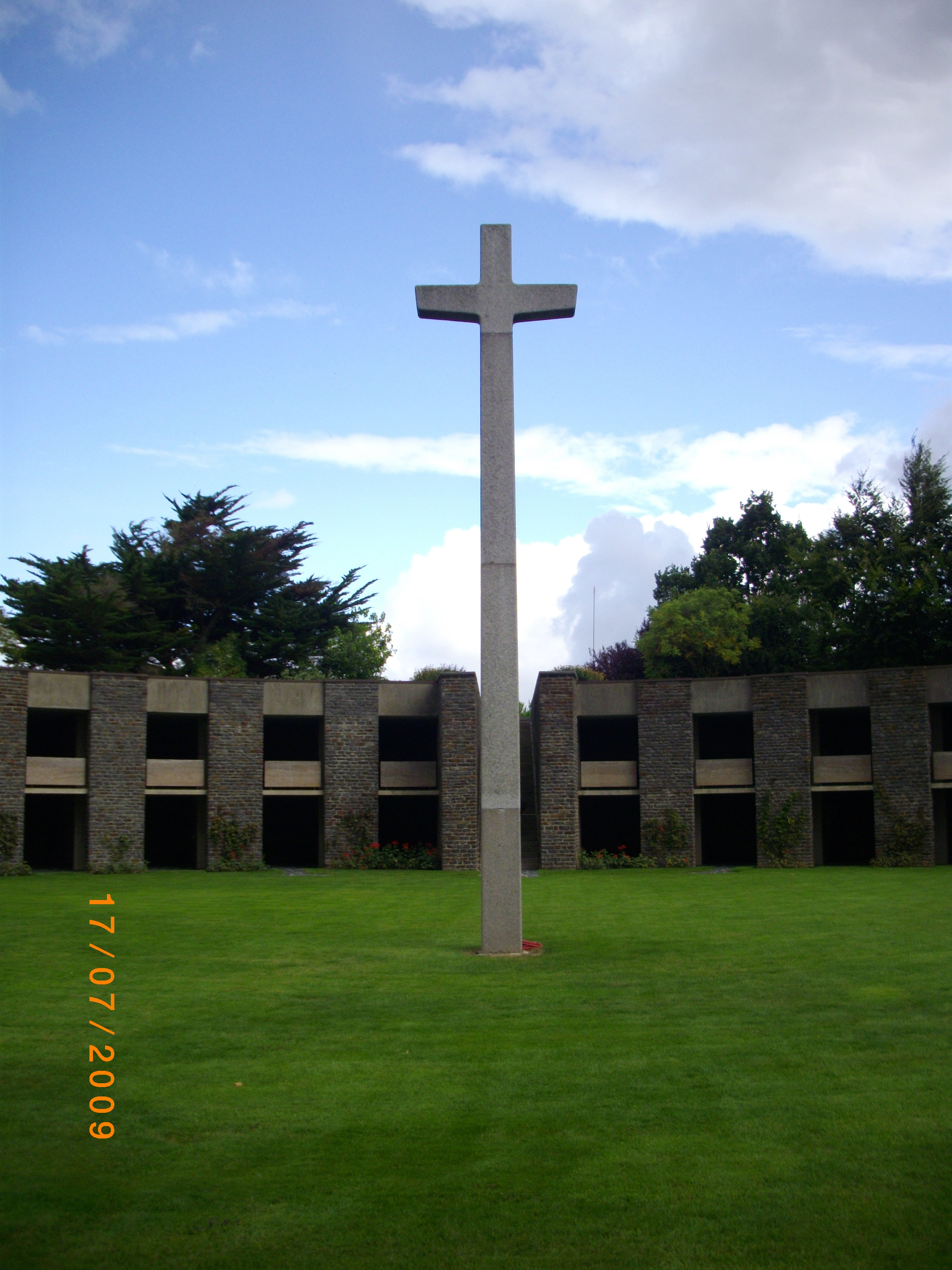 German Military Cemetery Mont-de-Huisnes